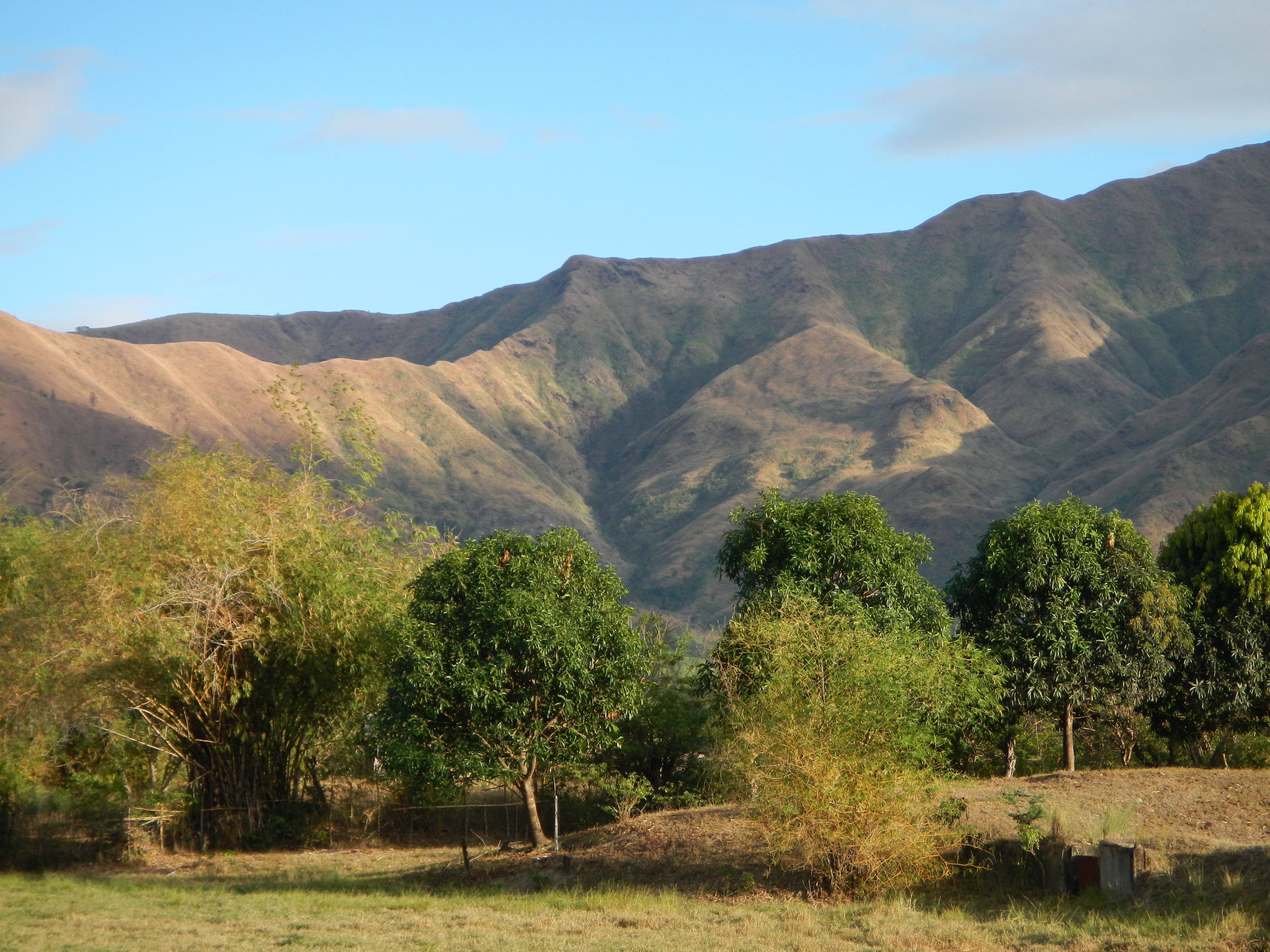 San Antonio, Zambales[1] is a 2nd class municipality in the province of Zambales in the Philippines. According to the latest Philippine census, it has a population of 34,217 people in 6,483 households in an area of 18,812 hectares. As of 2010, it has 17,539 registered voters.[2]Barangay Pundaquit (Pundakit) is a fishing village located in San Antonio, Zambales. Camara Island Capones Island Anawangin Cove Nagsasa Cove Public Market[3][4]Land Area: 188.12 km² ZIP Code: 2206 Coordinates: 14°51'27"N 120°6'42"E